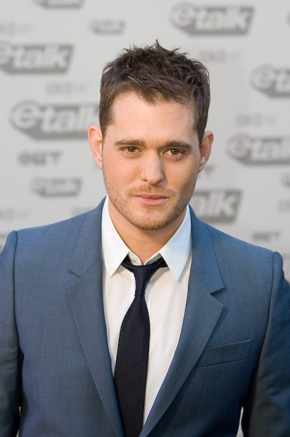 Michael Buble walks the Red Carpet at the 2009 Junos in Vancouver, Canada